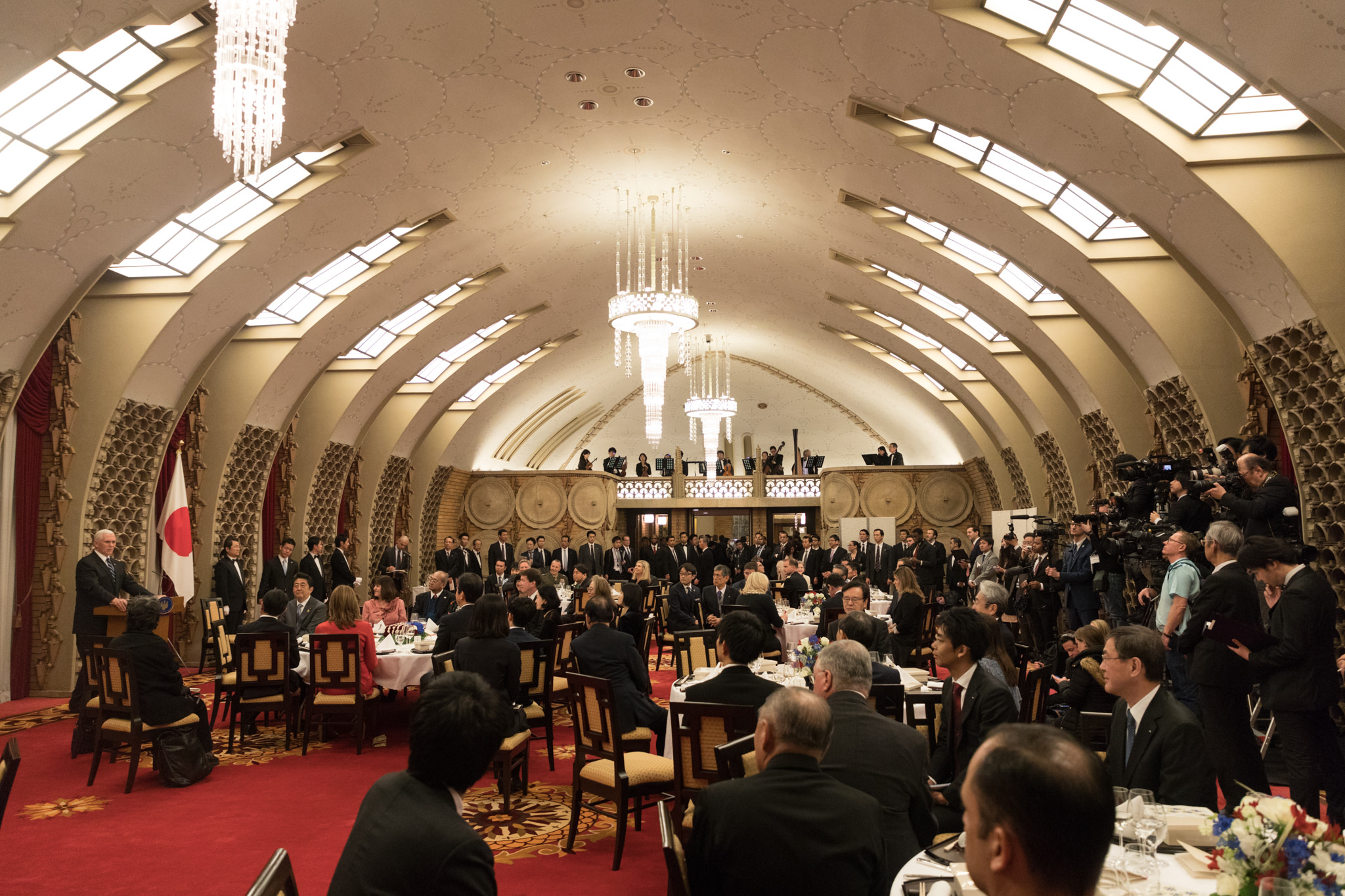 Vice President Mike Pence delivers a toast and remarks at a banquet hosted by the Japanese Government at the Kotei banquet hall, Wednesday, February 7, 2018, in Tokyo, Japan. (Official White House Photo by D. Myles Cullen) 総理大臣公邸 大ホール